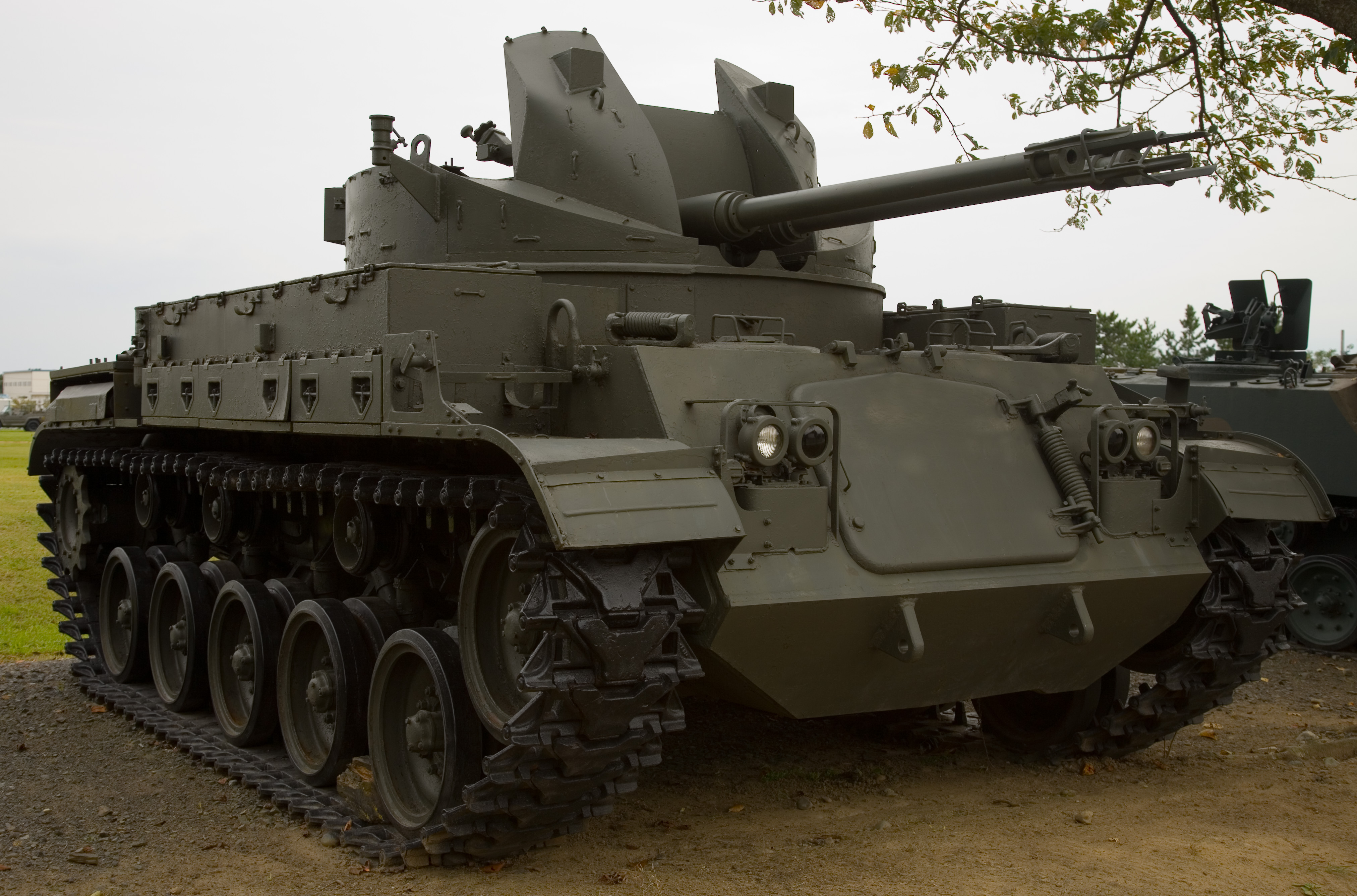 An M42 "Duster" mobile anti-aircraft gun at Tsuchira tank museum open day.